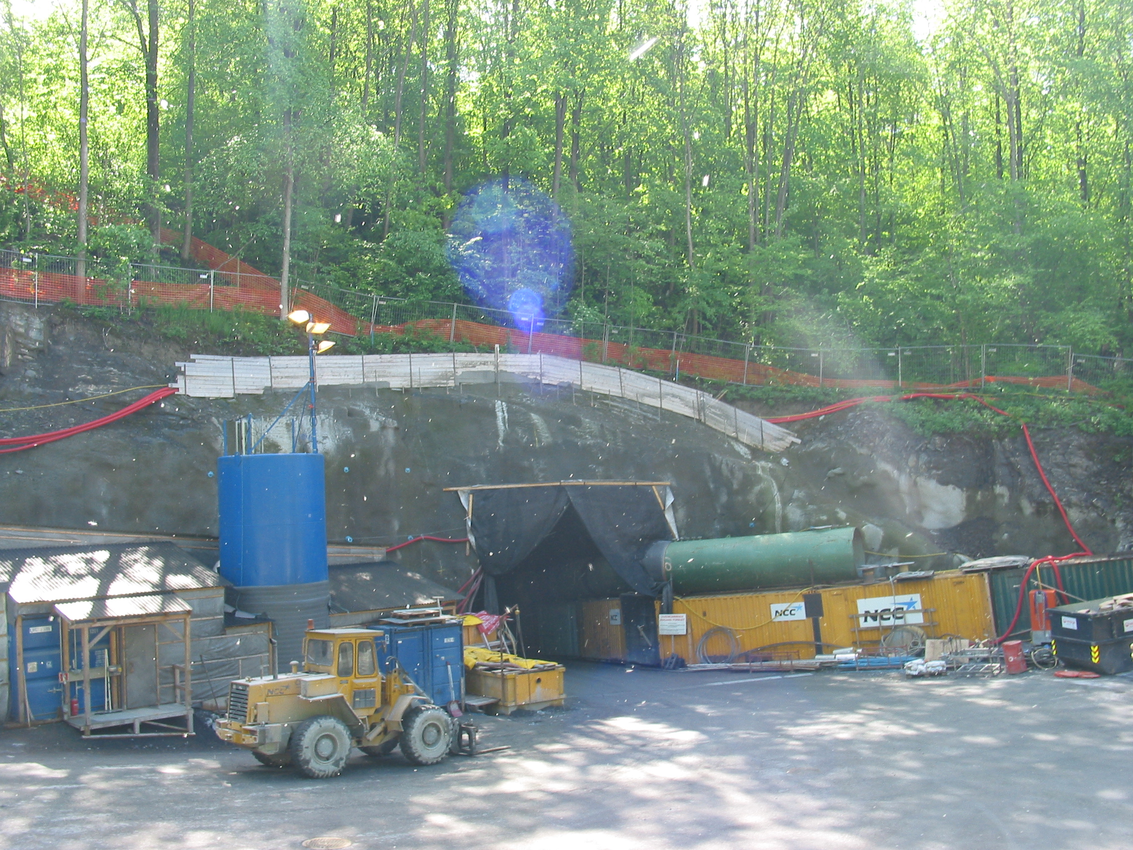 Excavation site of the Bærum Tunnel at Fossveien. Lots of seedy particles floating about in the air, so that's not dust right there.